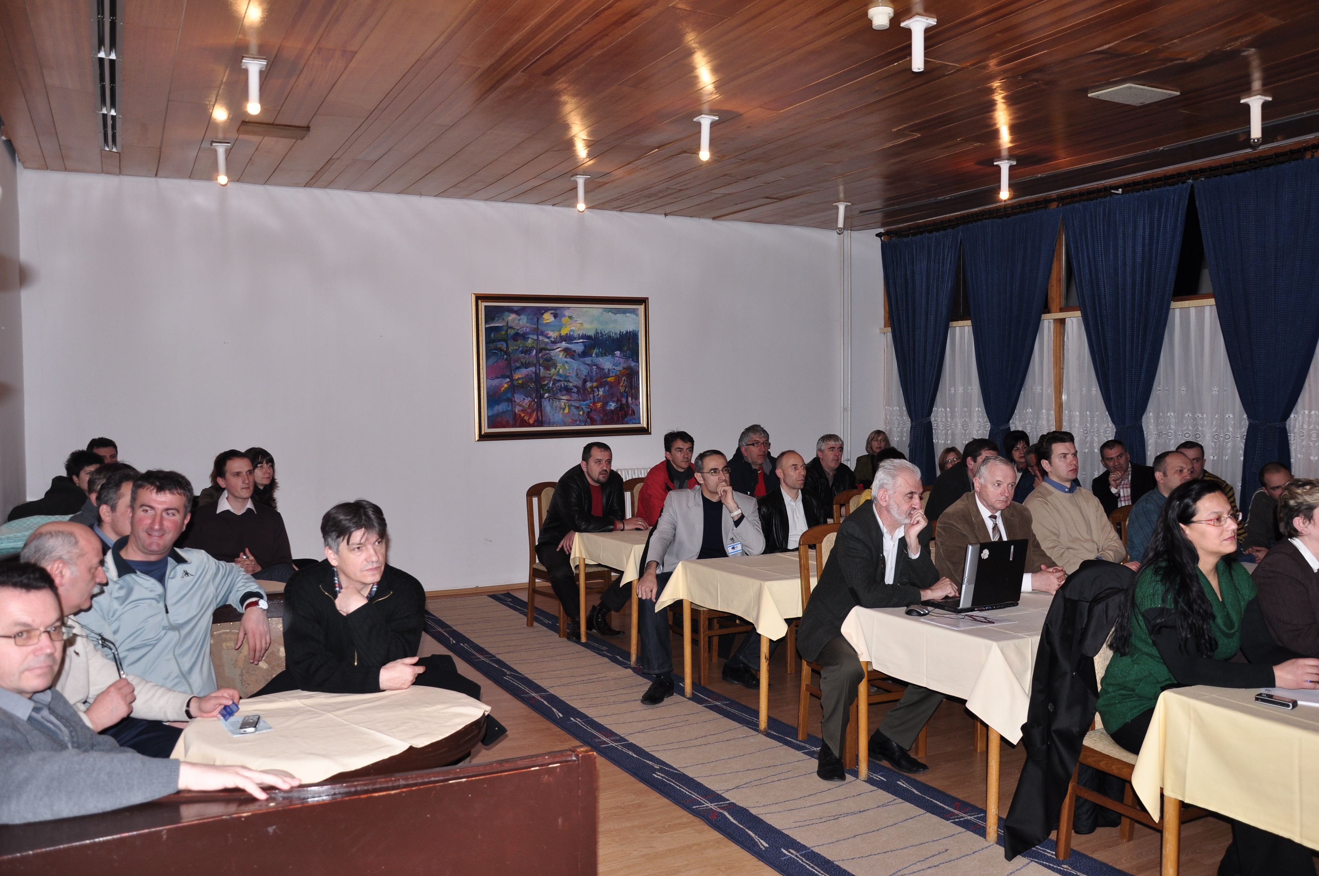 Infoteh - Jahorina